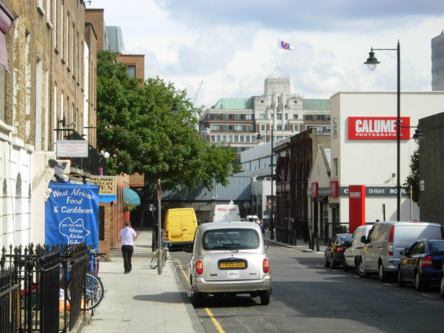 Drummond Street, Euston Drummond Street is renowned for its Indian restaurants and ethnic food shops. The large building with the flag is the other side of Euston Station; it was at one time the headquarters of the British Railways Board but is now occupied by a management training company.